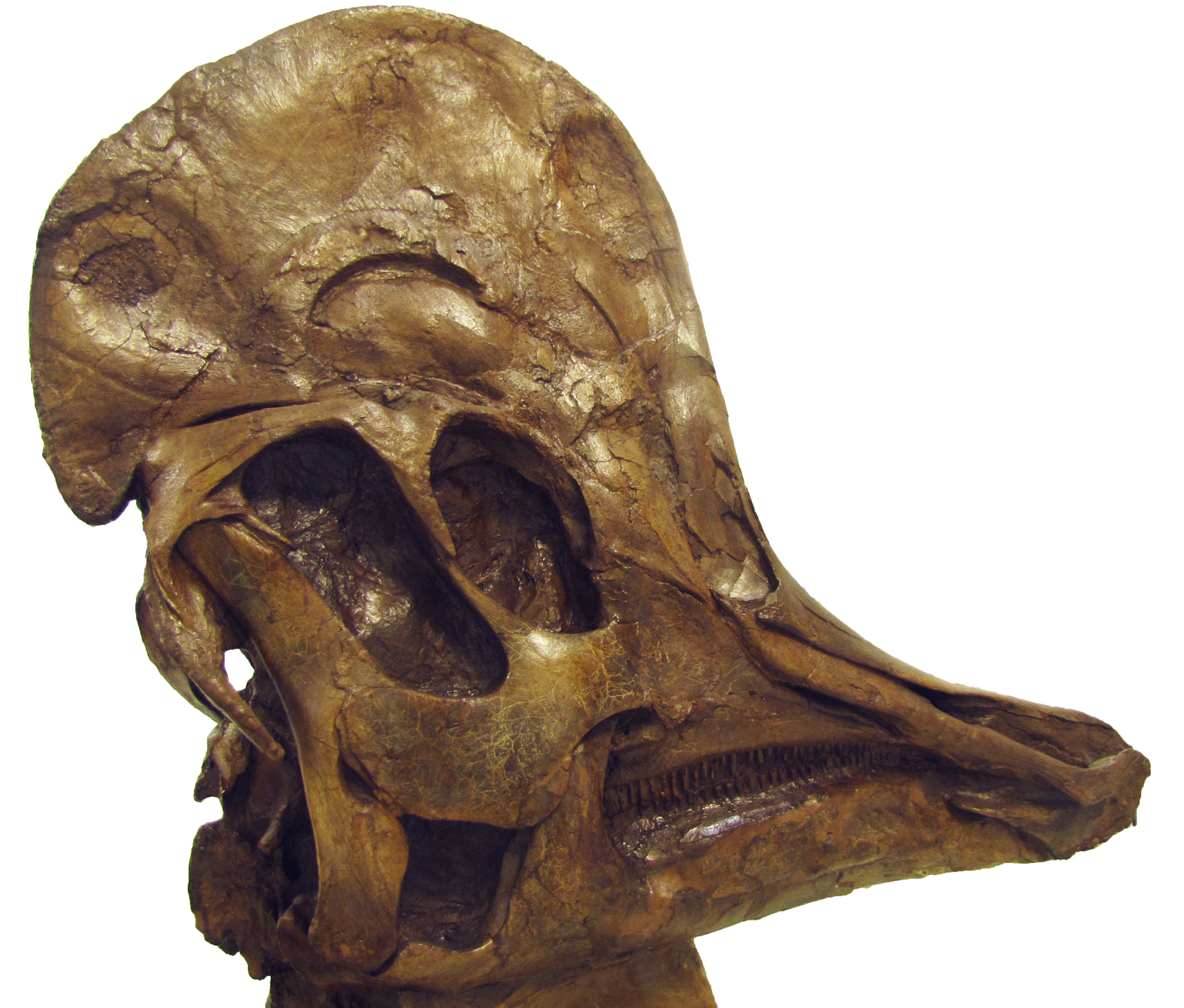 Corythosaurus skull from the American Museum of Natural History